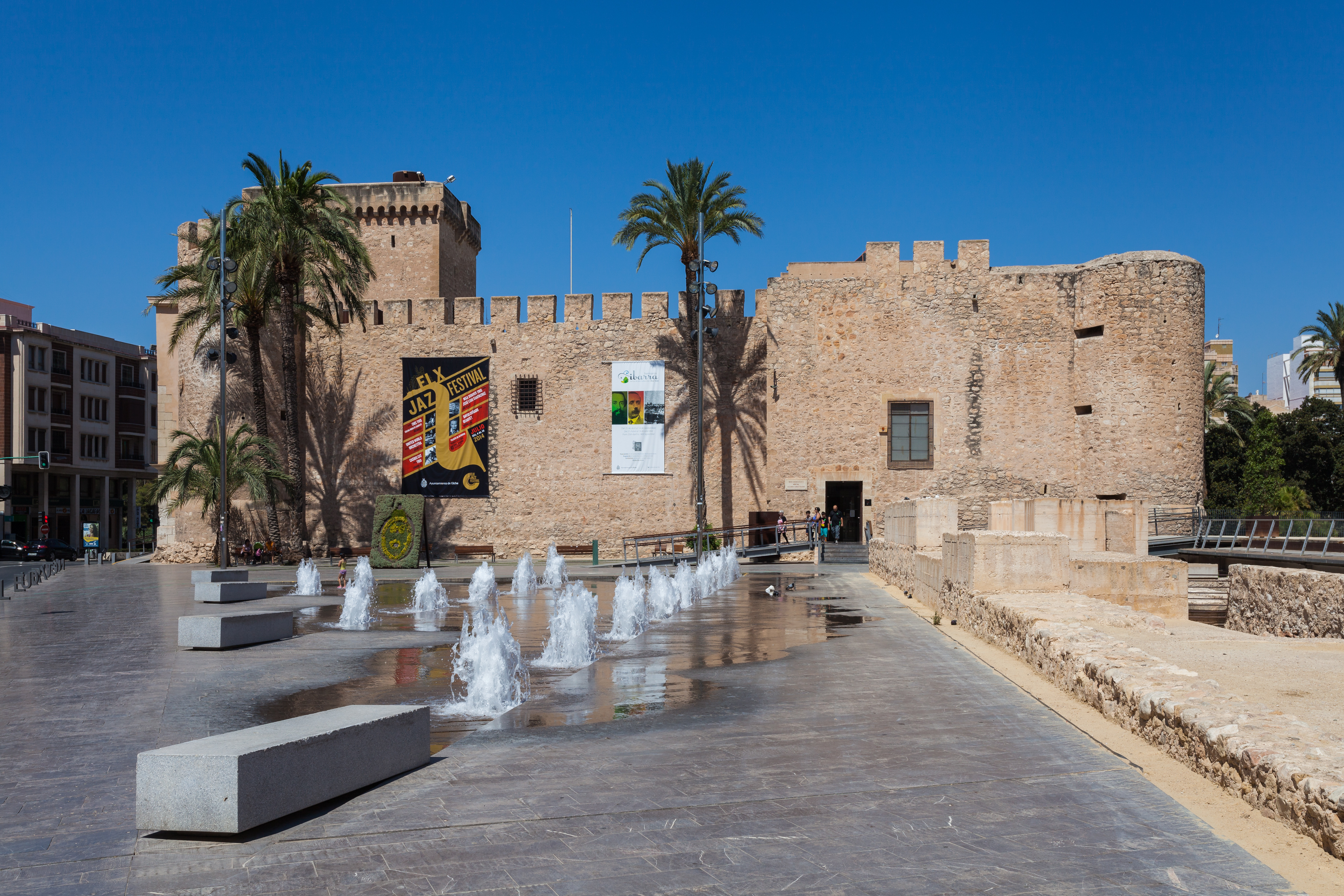 Altamira Palace, Elche, Spain